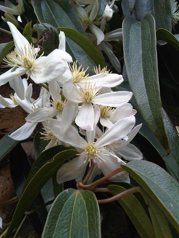 Clematis armandii in London, England.